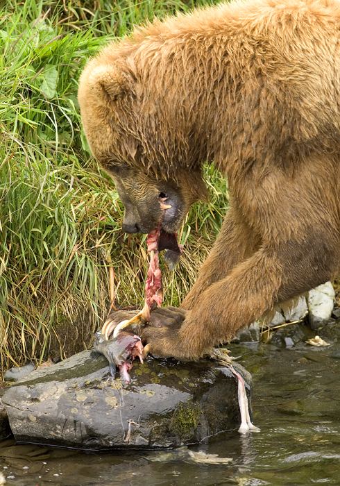 Brown bear in the Kodiak National Willdife Refuge eating salmon.